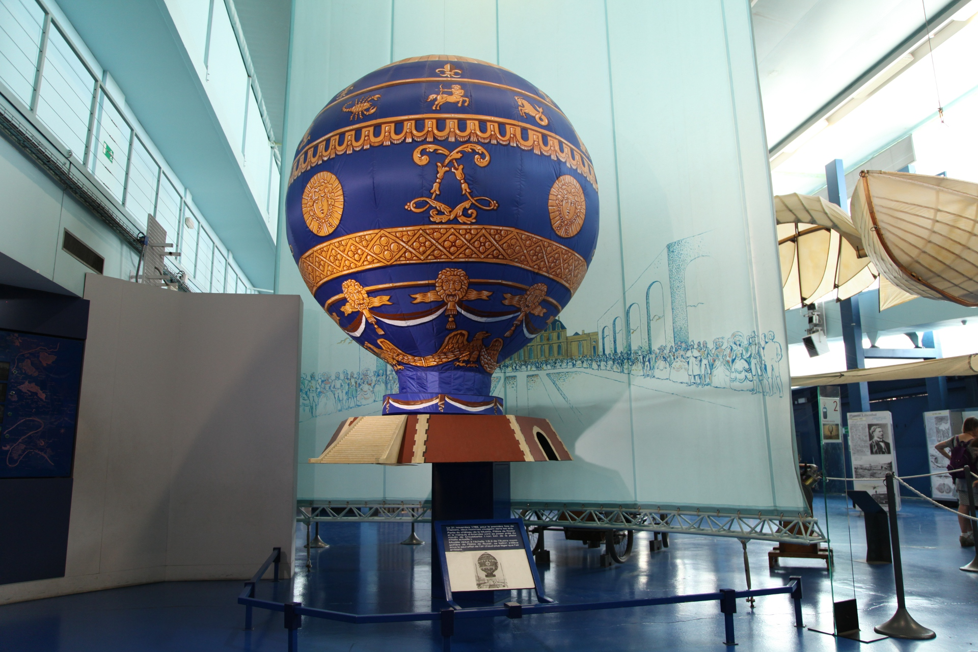 Hot air balloon at the Museum of Air and Space - Le Bourget - France